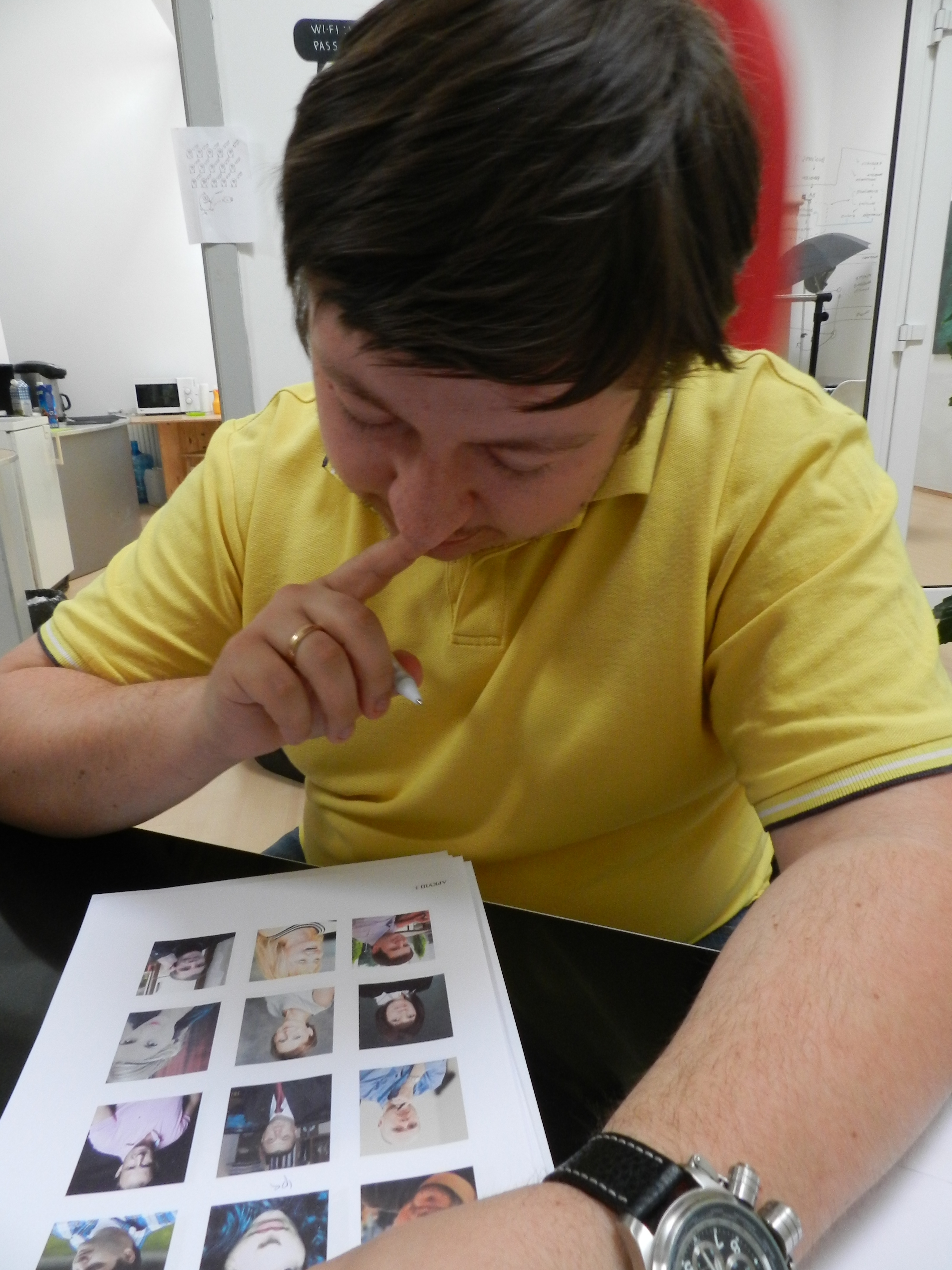 memory championship in Lviv